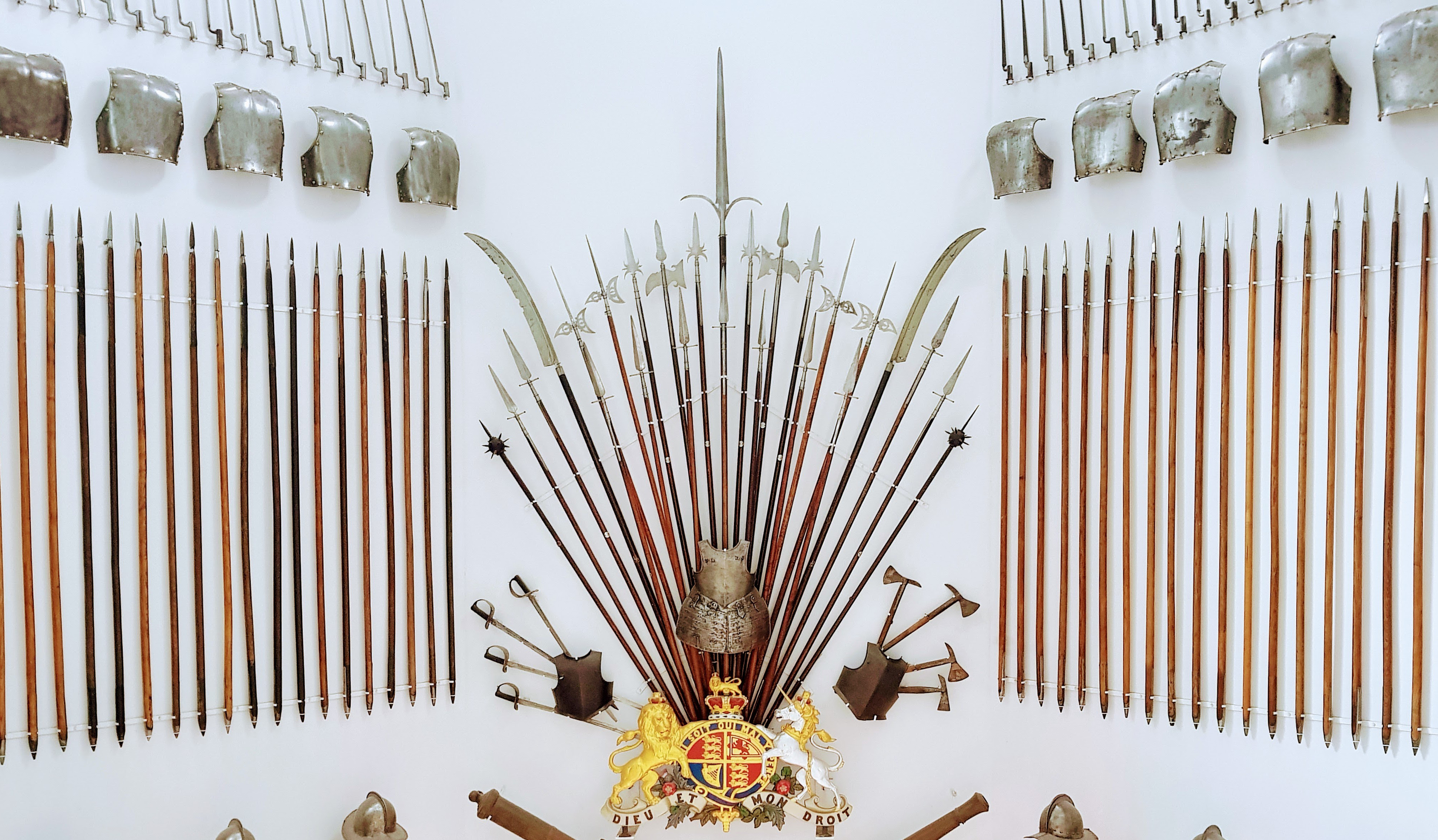 Main stairwell, Royal Armouries, Leeds